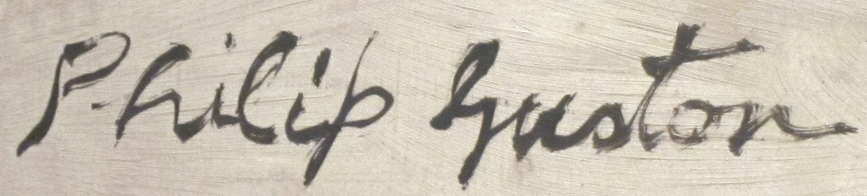 Signature of Philip Guston, 1969